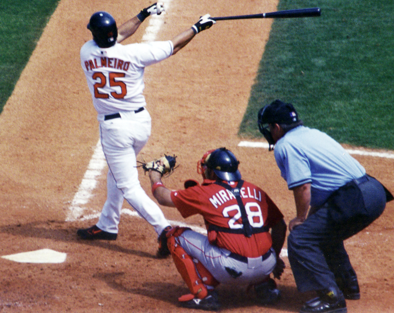 Rafael Palmeiro in mid swing, Spring Training 2005. Photo by Googie Man 19:33, 18 June 2005 . . Googie man . . 774×615 (822 KB)